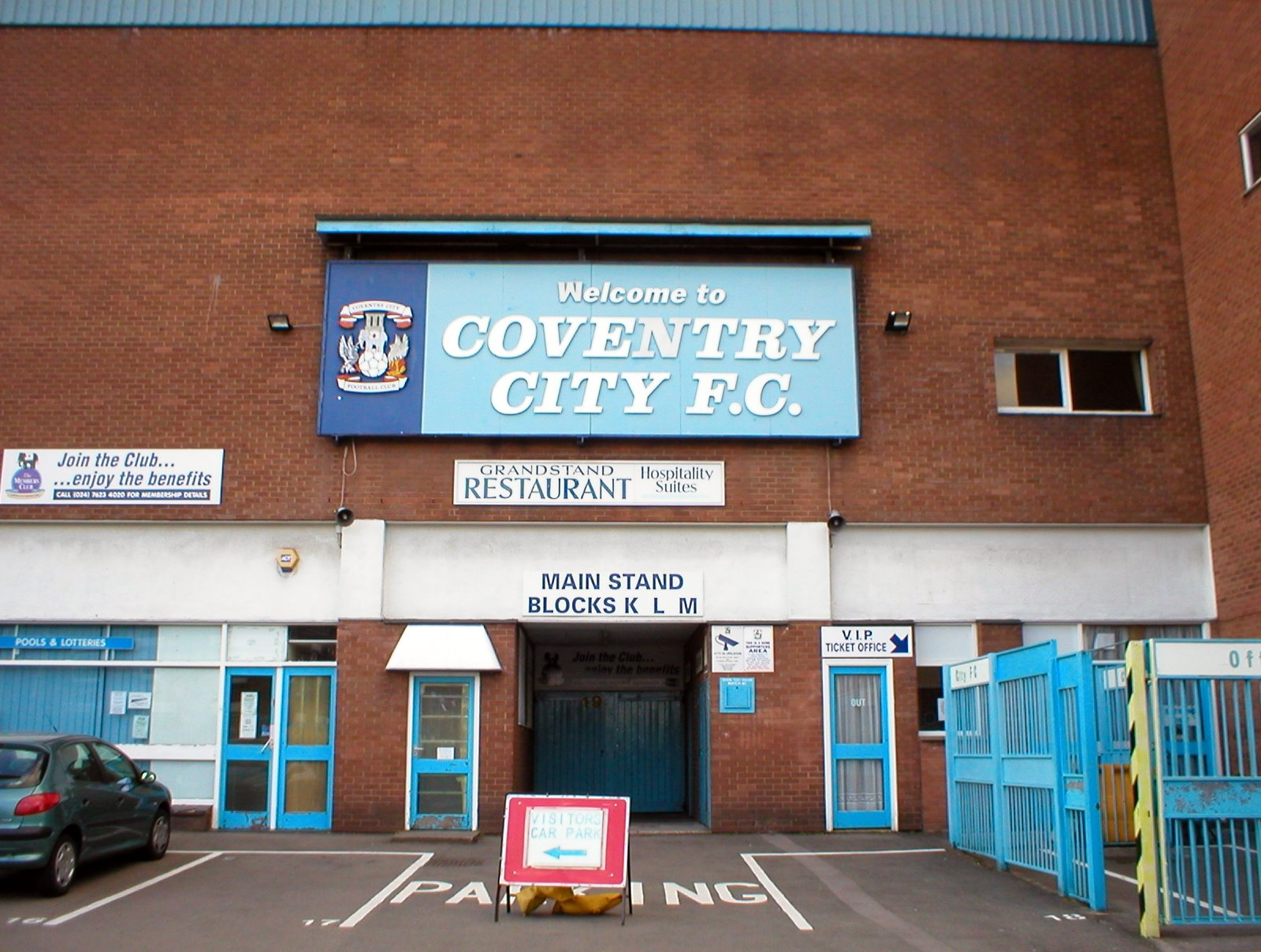 Photo taken in April 2004 of one of the entrances to Highfield Road Stadium, Highfield Road, Coventry, England. The stadium has since been demolished.